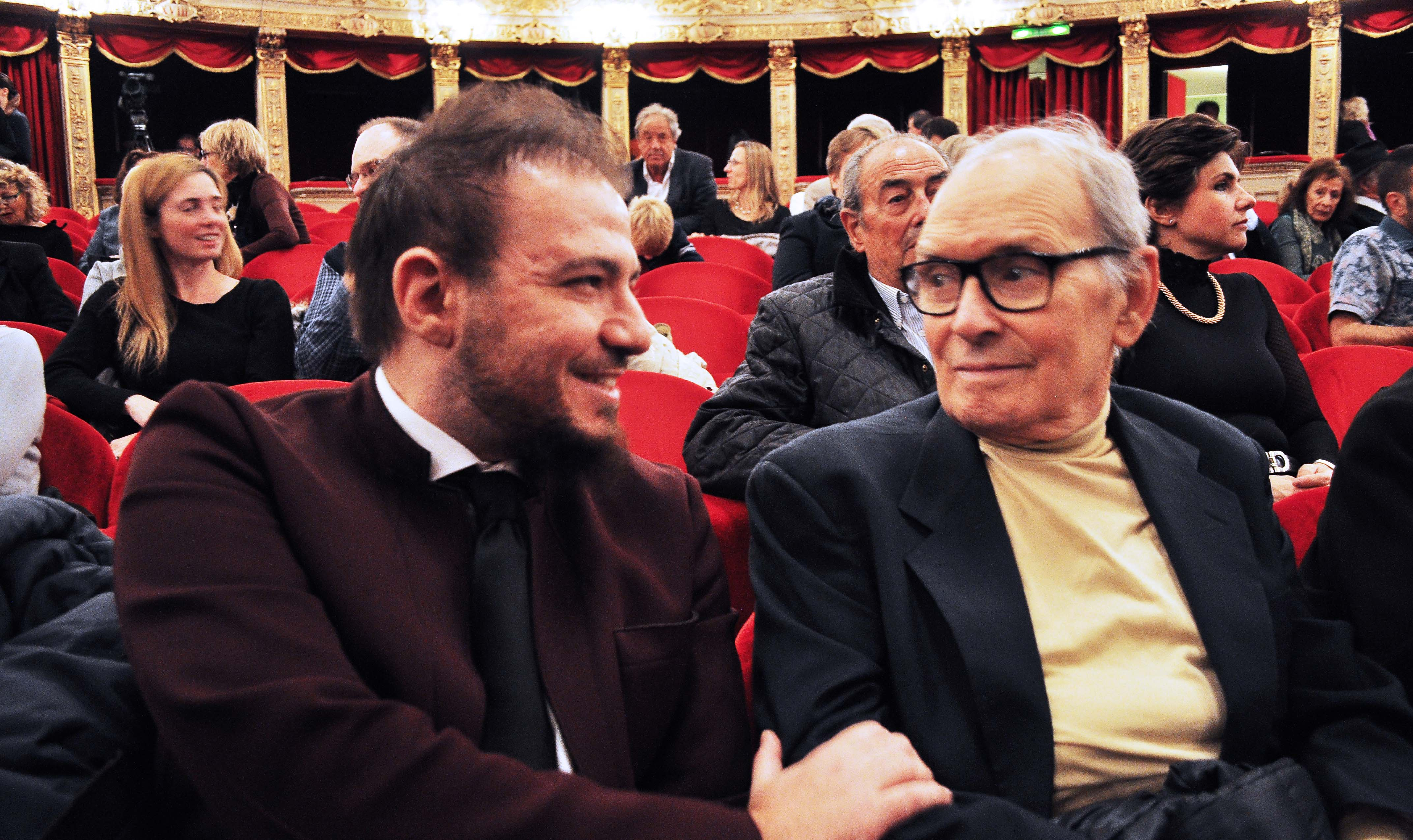 Franco Eco & Ennio Morricone